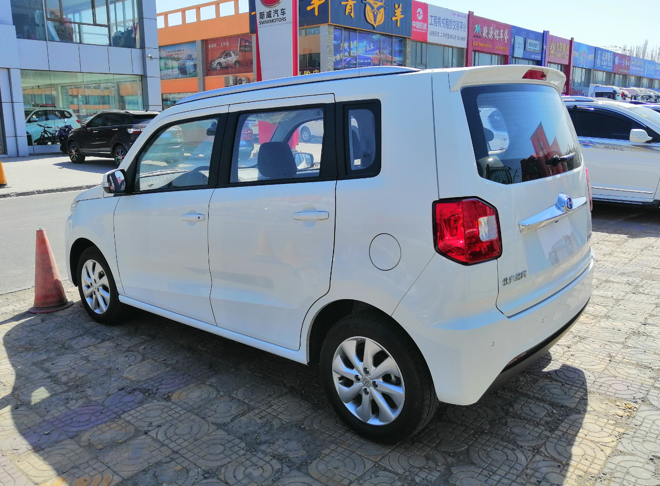 Changhe Beidouxing II photographed in Yinchuan, Ningxia autonomous region, China.